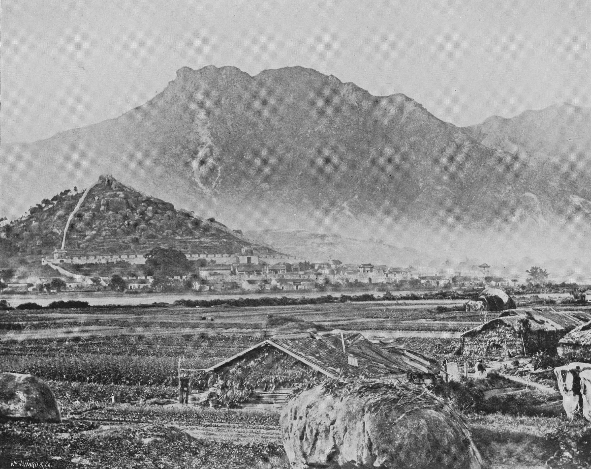 photo from Through China with a camera